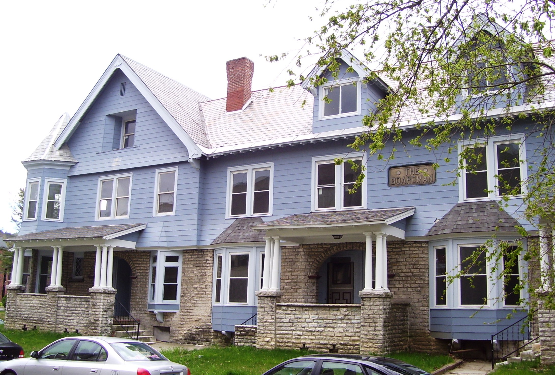 The Boardman apartment buildings at 39-53 Montana Street between Hoosac and Blackinton Streets in North Adams, Massachusetts were built in 1899 and were designed by Edwin T. Barlow in the Colonial Revival style. They were added to the National Register of Historic Places in 1985.